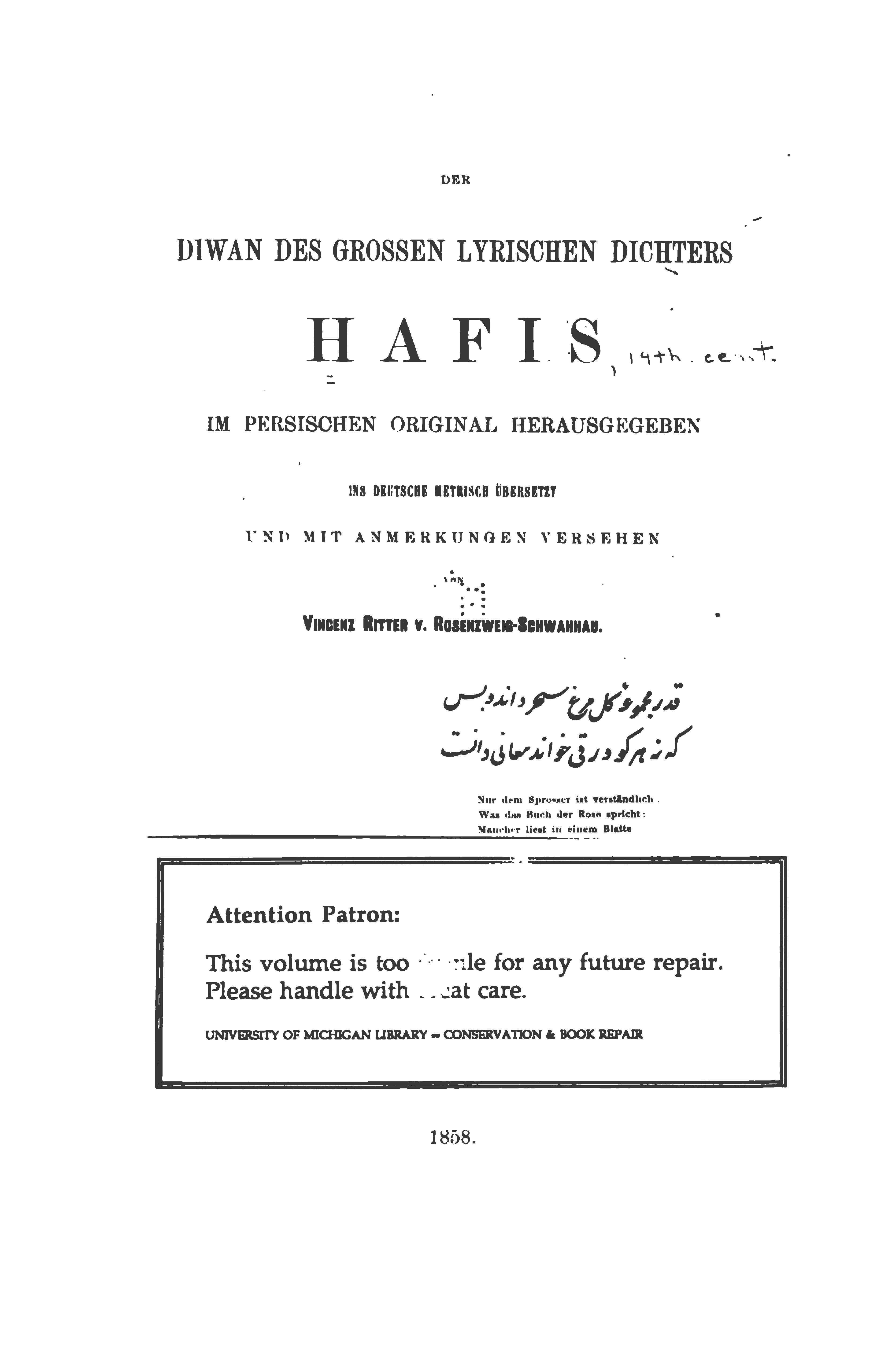 Scan of the German book Diwan des Grossen Lyrischen Dichters Hafis, for wikisource